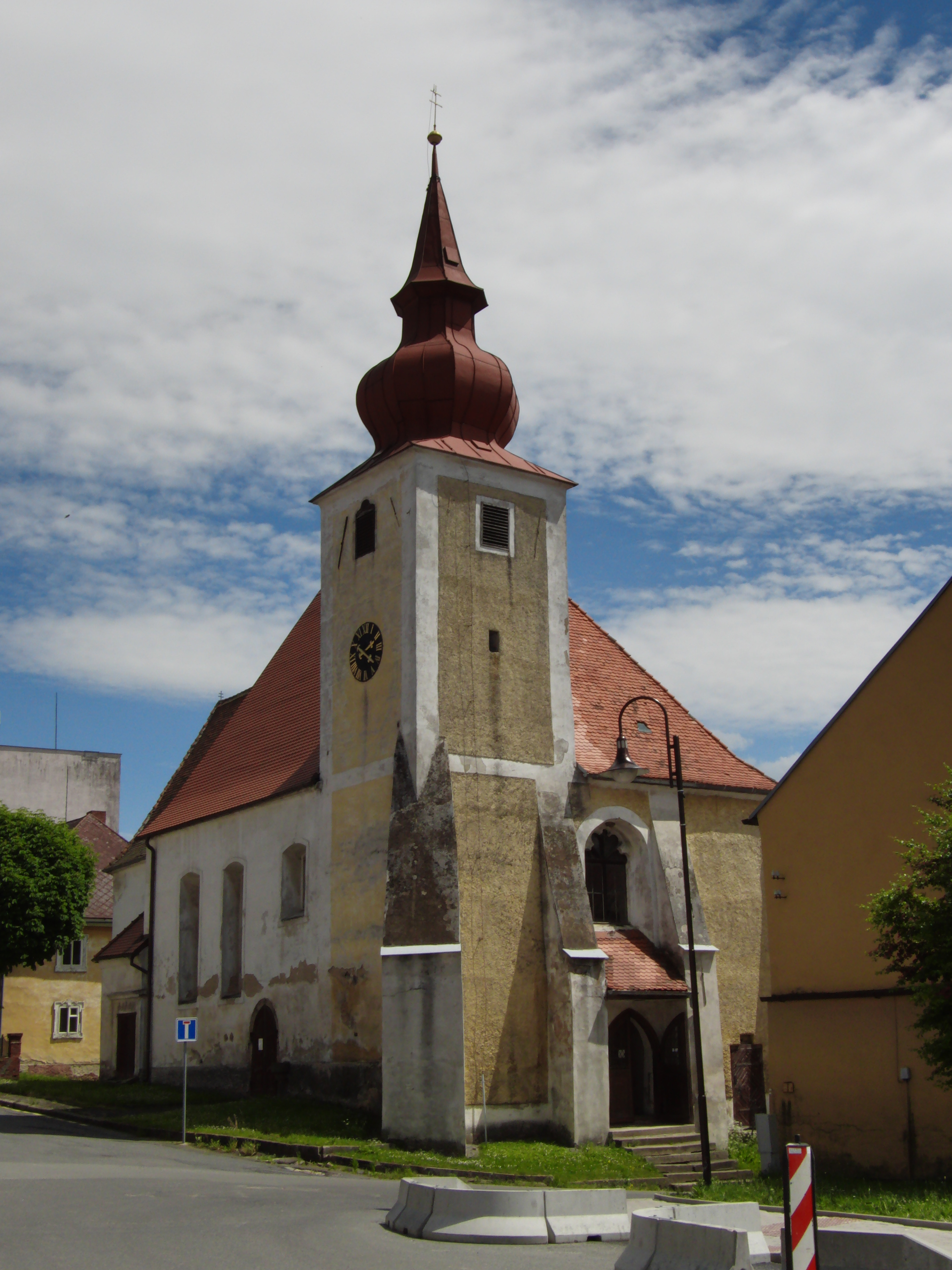 Poběžovice church (Domažlice district), cultural monument